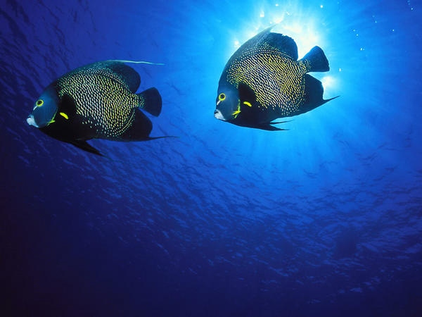 French Angelfish, Andrew Dawson Wildlife Photography